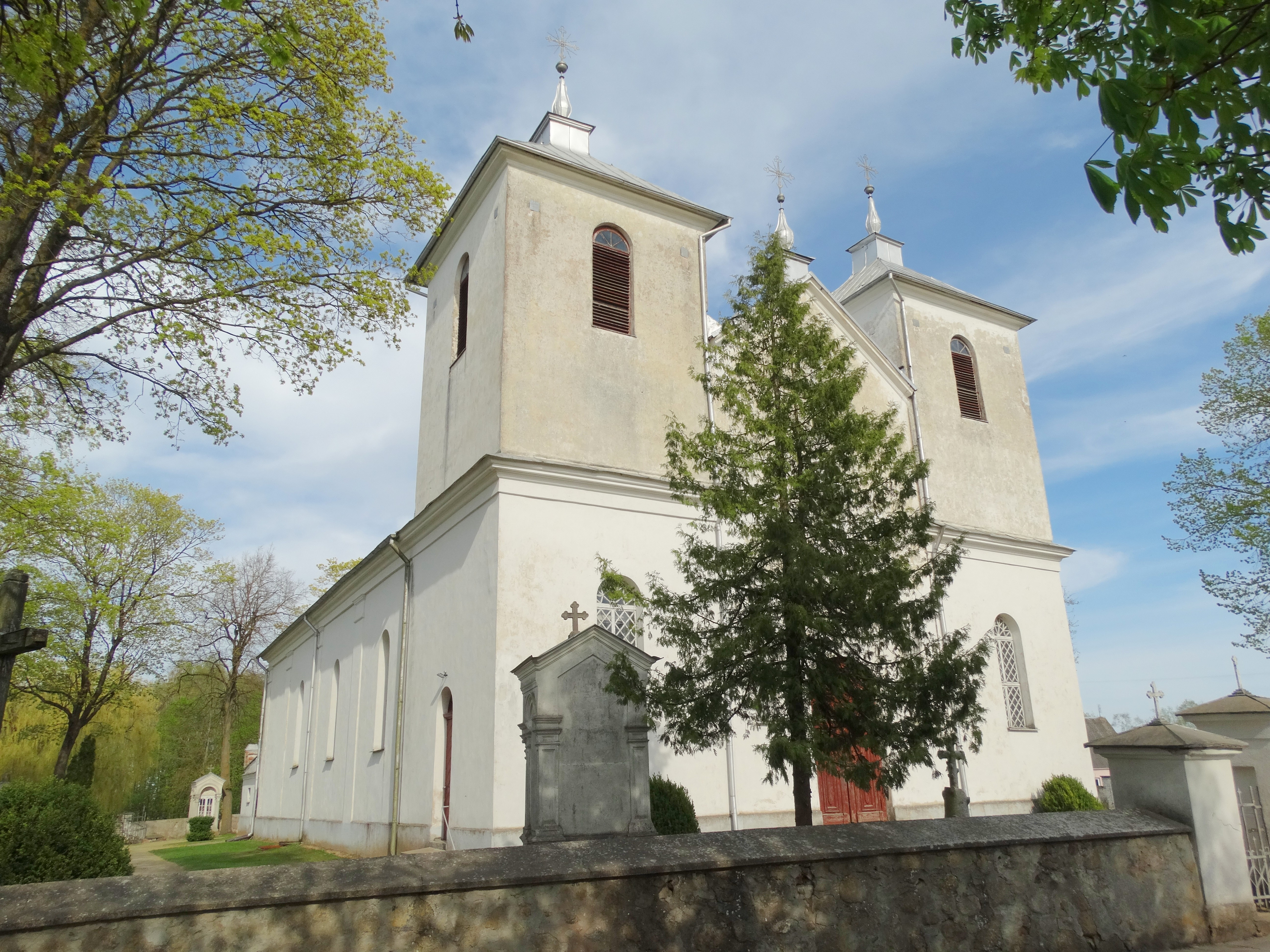 Pašvitinys, catholic church, Pakruojis District, Lithuania